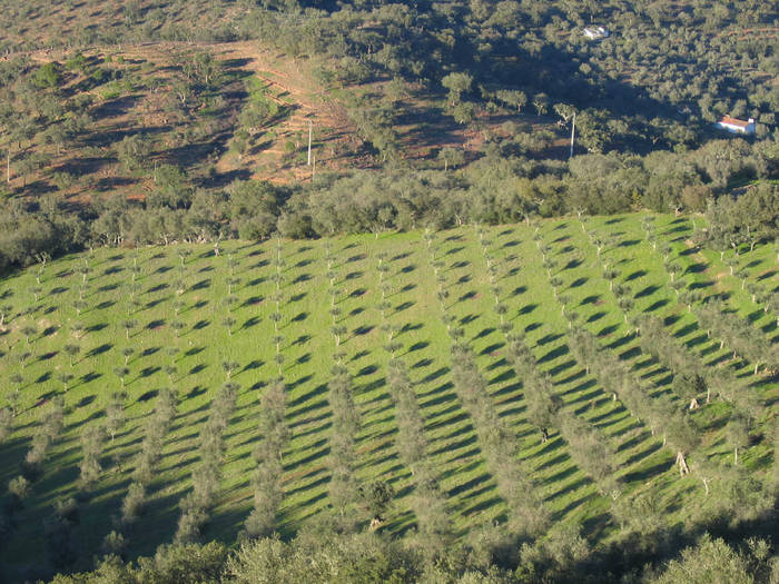 View from Evora Monte